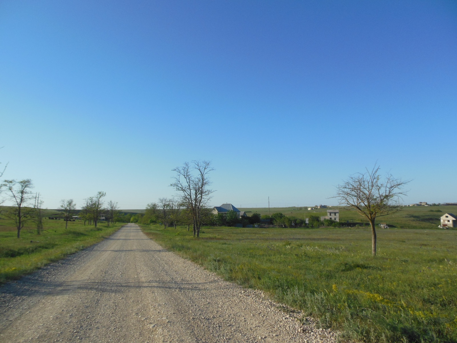 The village Klyuchi, Simferopol district, Crimea.